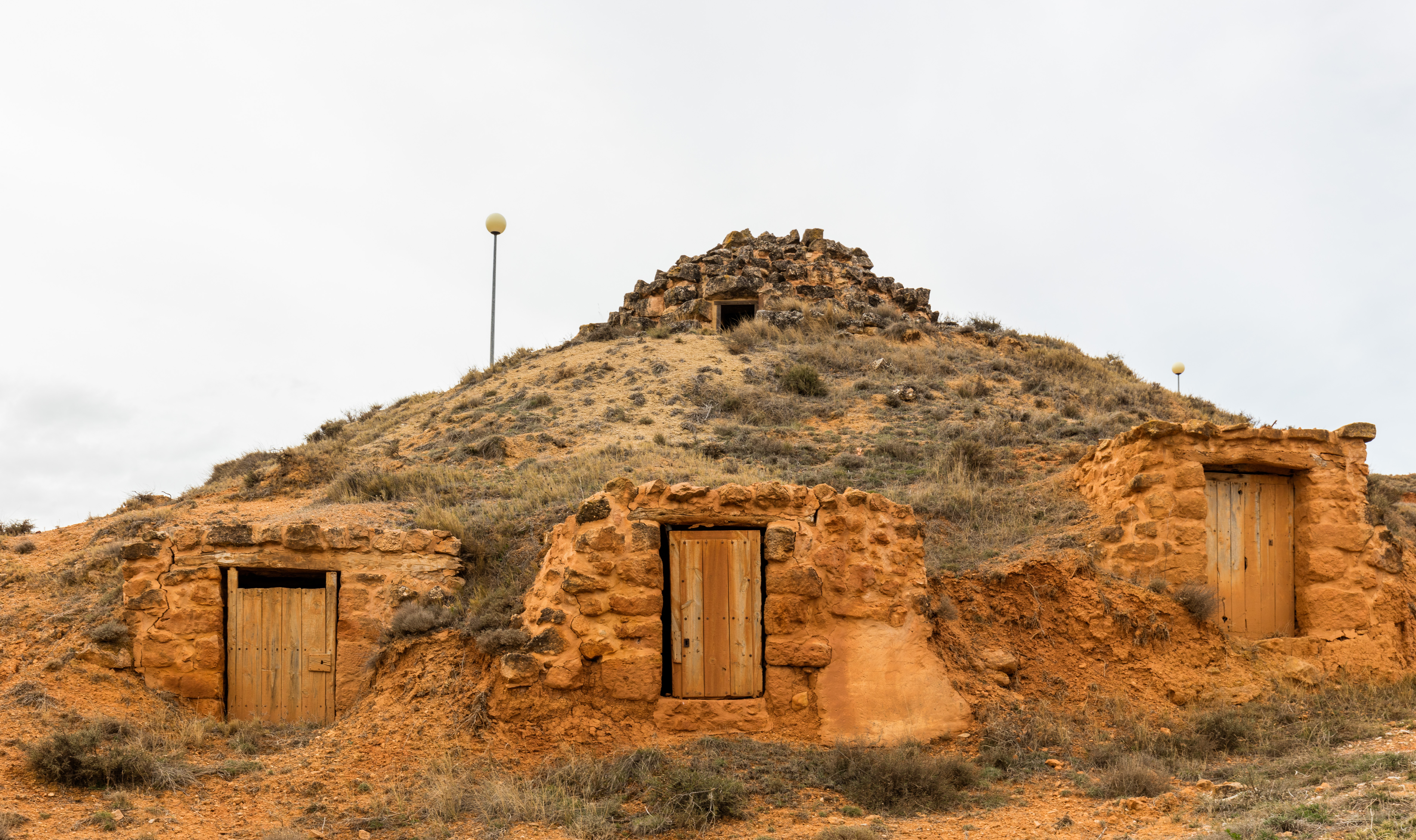 Castle, Torrehermosa, Zaragoza, Spain